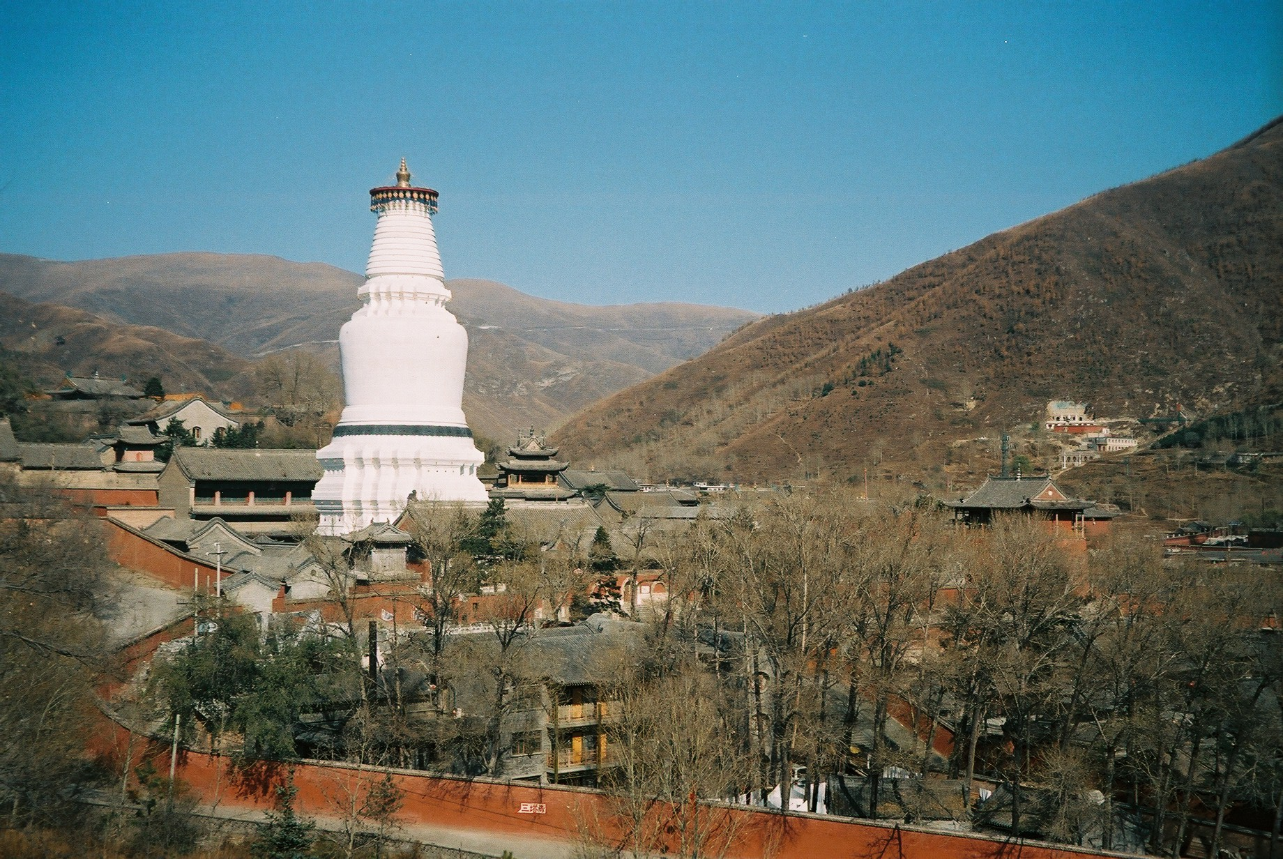 View of Taihuai with its temples and the stupa of Tayuan Si, at the heart of Wutai Shan, Shanxi province, China.